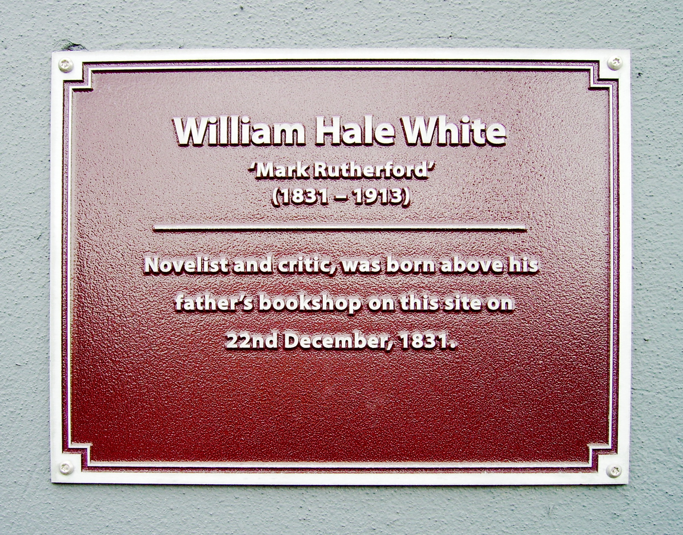 Plaque at the site of the birthplace of novelist Mark Rutherford (real name William Hale White) at the South end of Bedford High Street. There is an older round plaque above this.